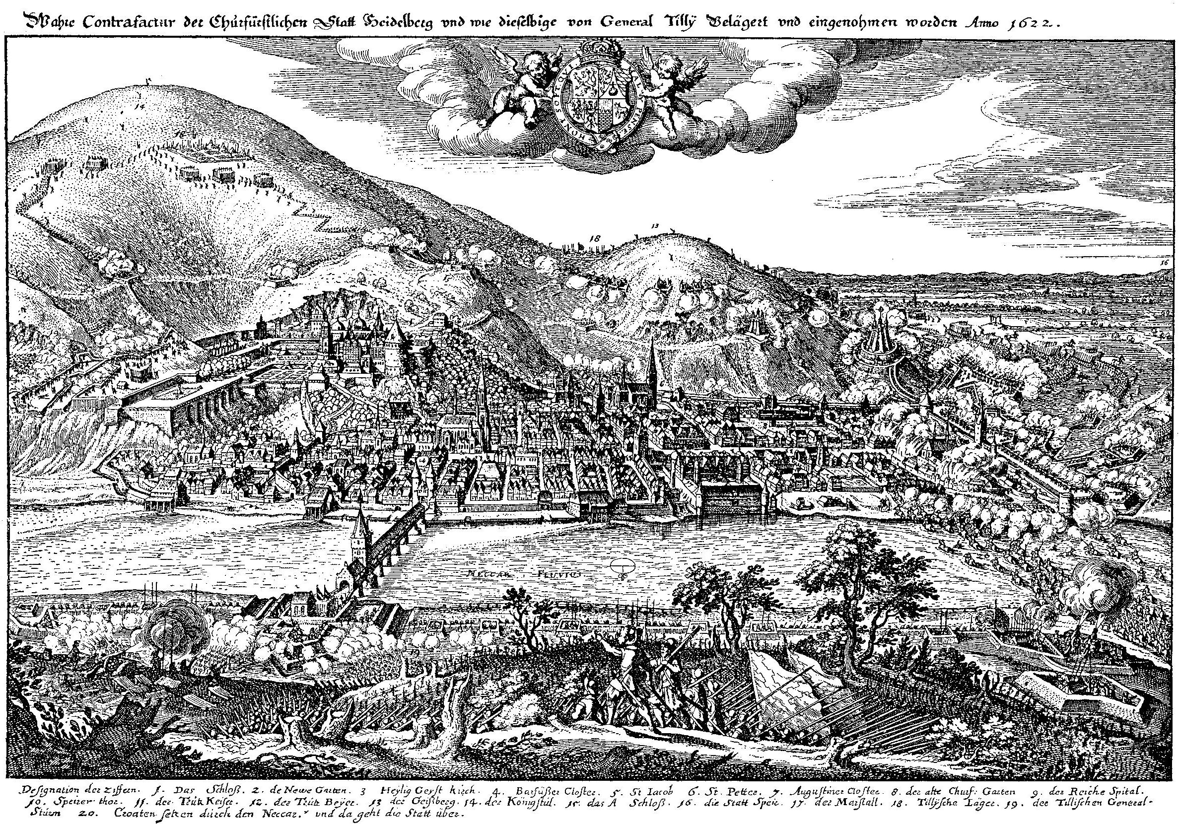 Historic View of the city of Heidelberg (Germany) during the siege of 1622 by general Tilly